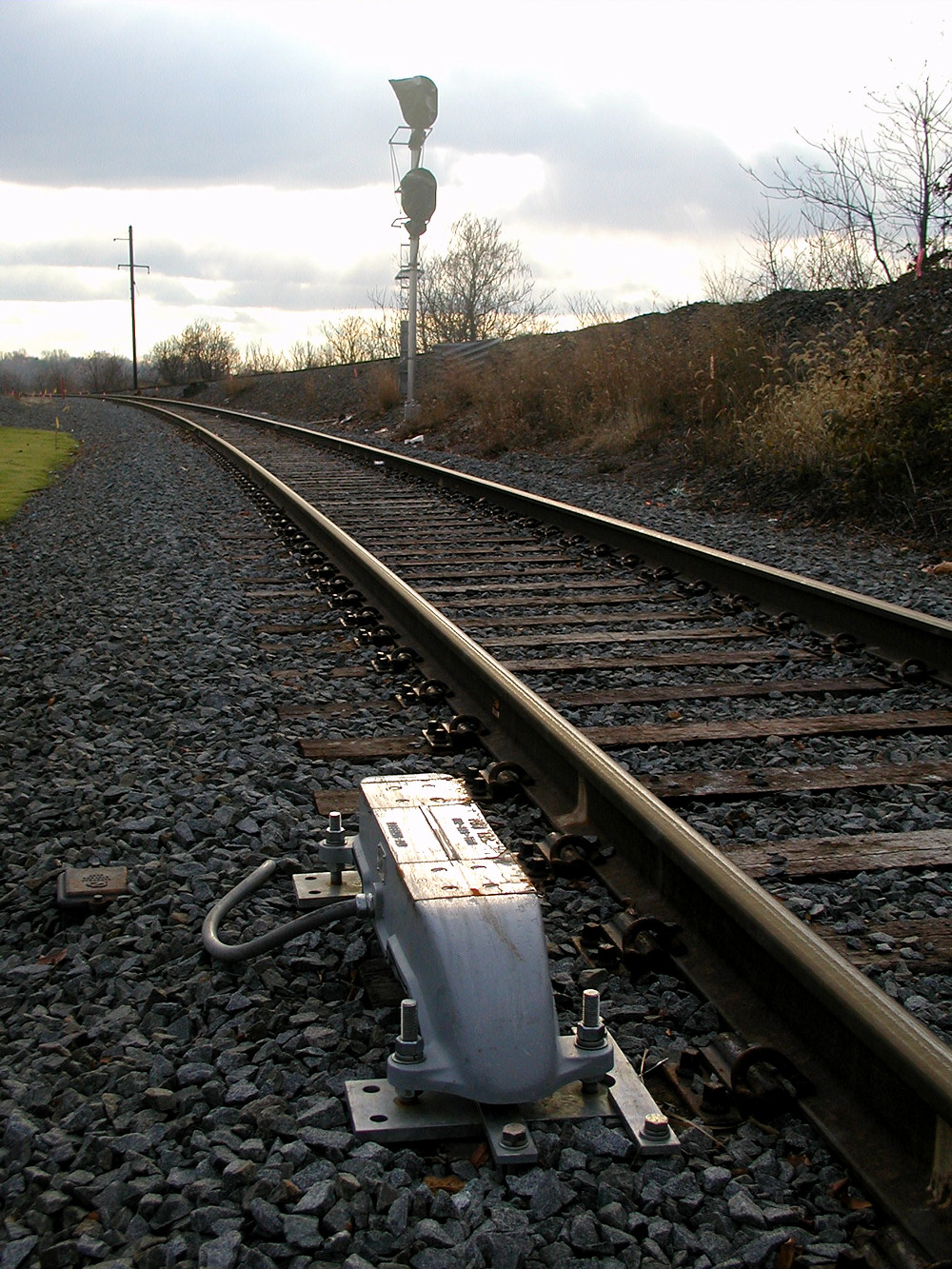 Two-state General Railway Signal style Intermittent Inductive Automatic Train Stop shoe installed on the New Jersey Transit RiverLINE at the north end of CP-45